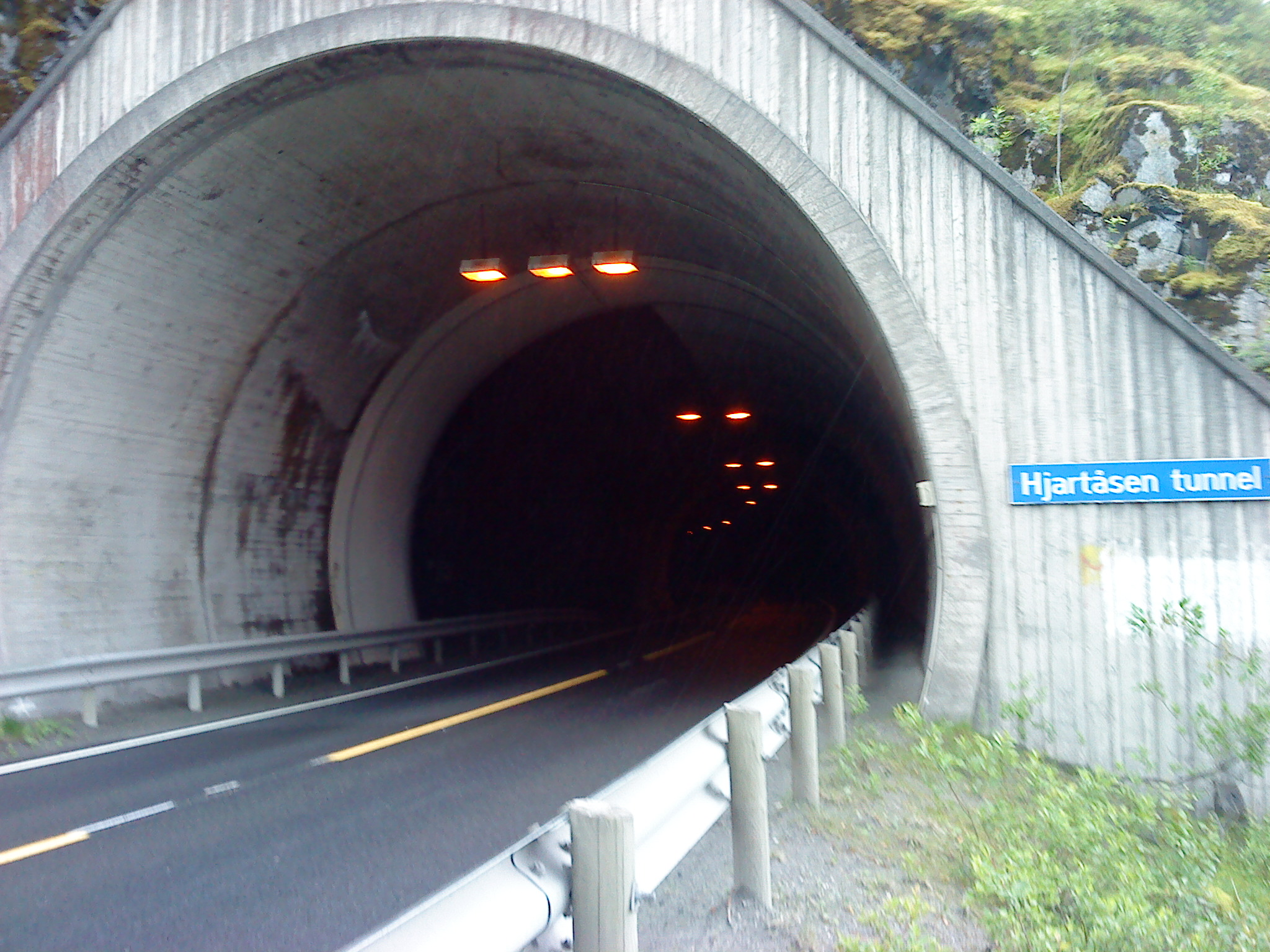 The north entrance to Hjartås tunnel